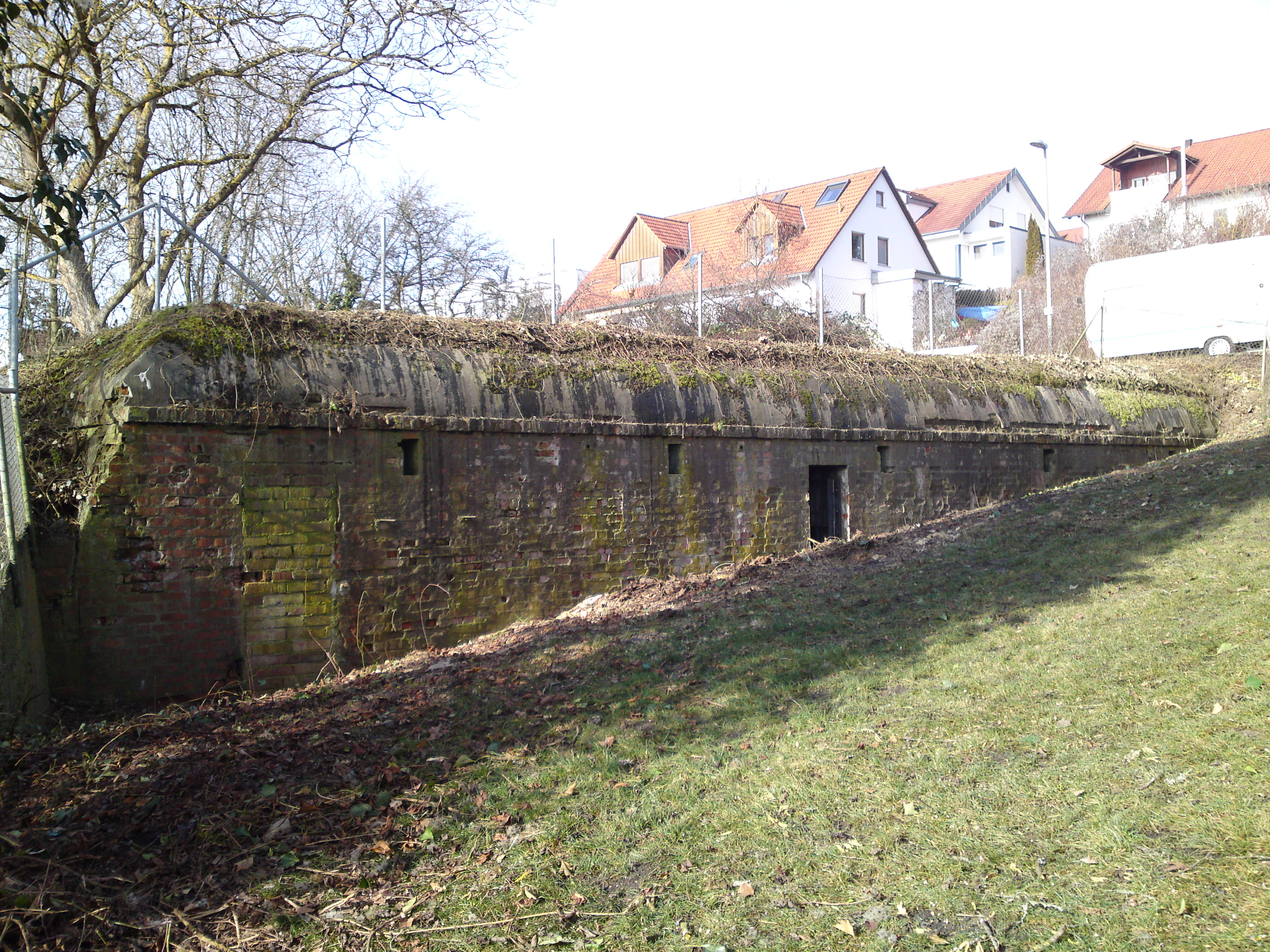 Bunker 31 (Lange Lemppen) at the Eselsberg in Ulm.